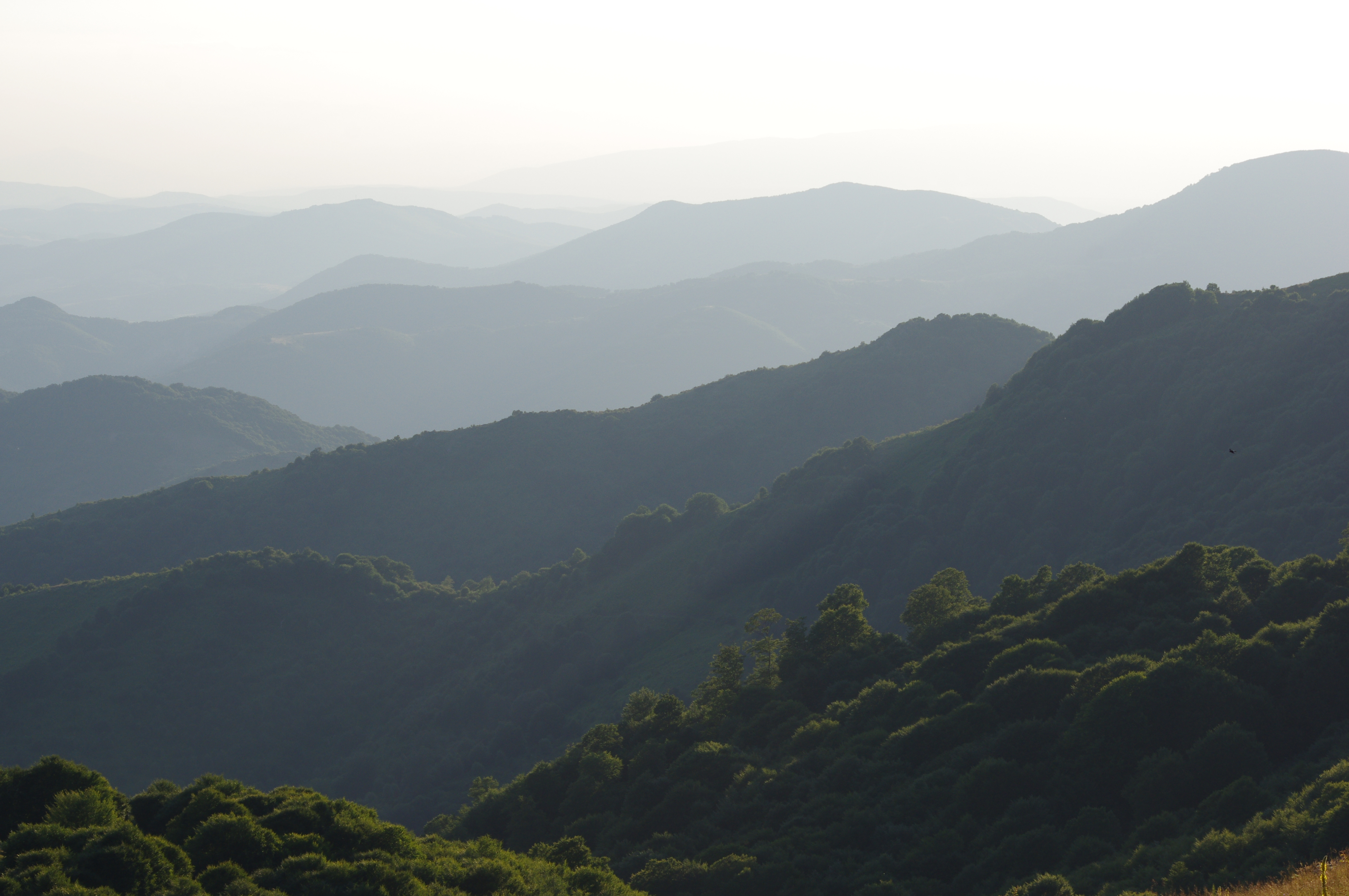 Osogovo seen from Ponikva, Macedonia